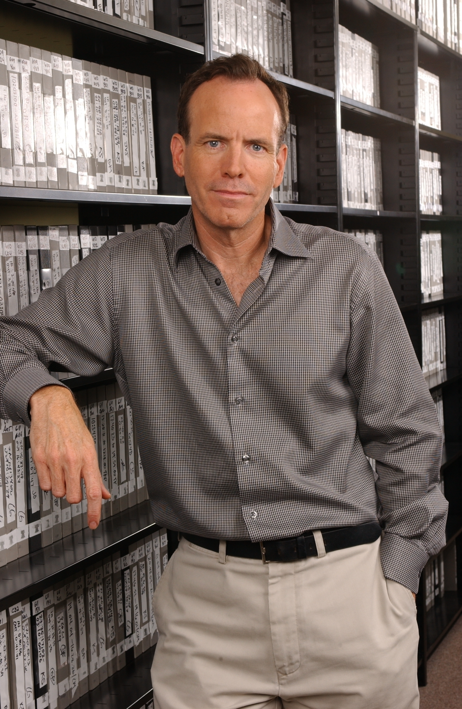 Jonathan Murray, Television producer from the United States